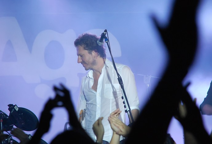 Belgian musician Tom Barman, lead singer for dEUS.